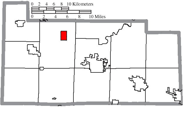 Map of the municipal and township boundaries of Sandusky County, Ohio, United States, as of the 2000 census, with the location of the village of Lindsey highlighted. Township borders are shown only in unincorporated areas in order to differentiate incorporated and unincorporated areas more clearly.